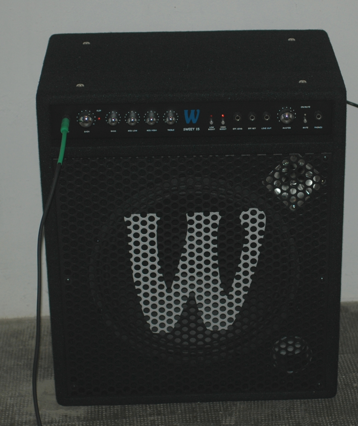 Warwick "Sweet 15" bass combo amplifier 150 watts own photograph by Joachim Hensel-Losch